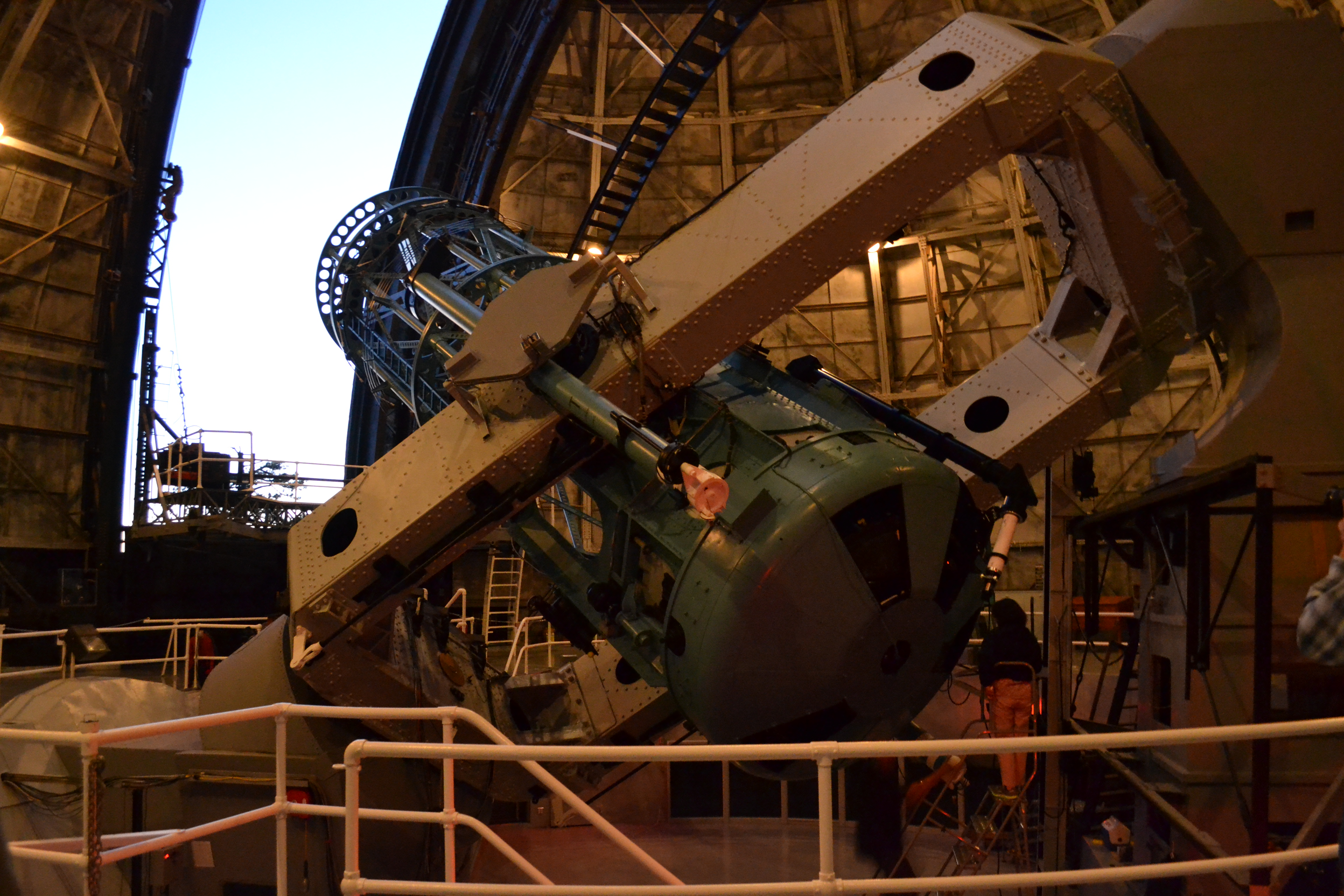 100 inch Hooker telescope at the Mount Wilson Observatory. Los Angeles, CA.